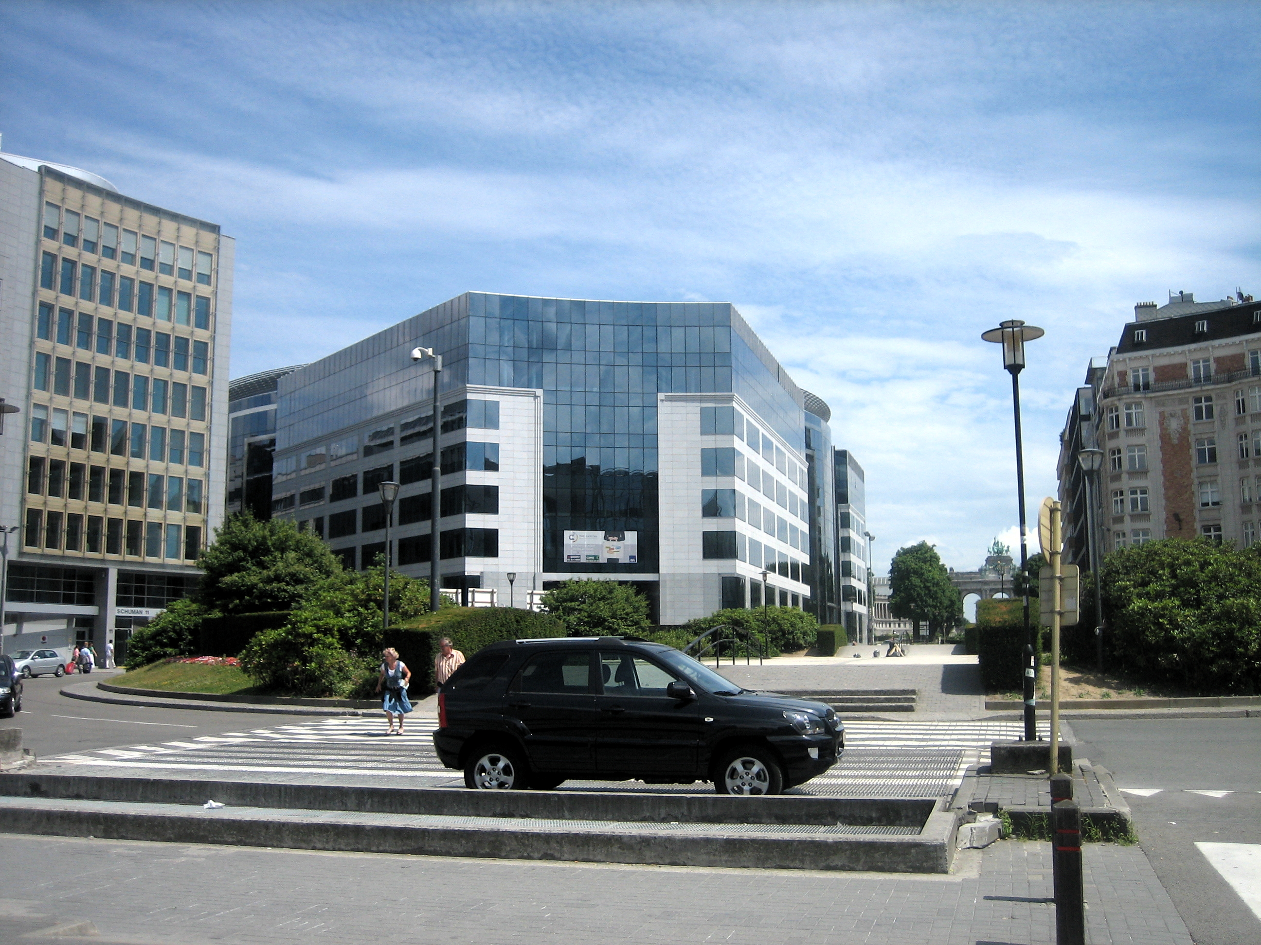 The Capital building in Brussels' European Quarter.